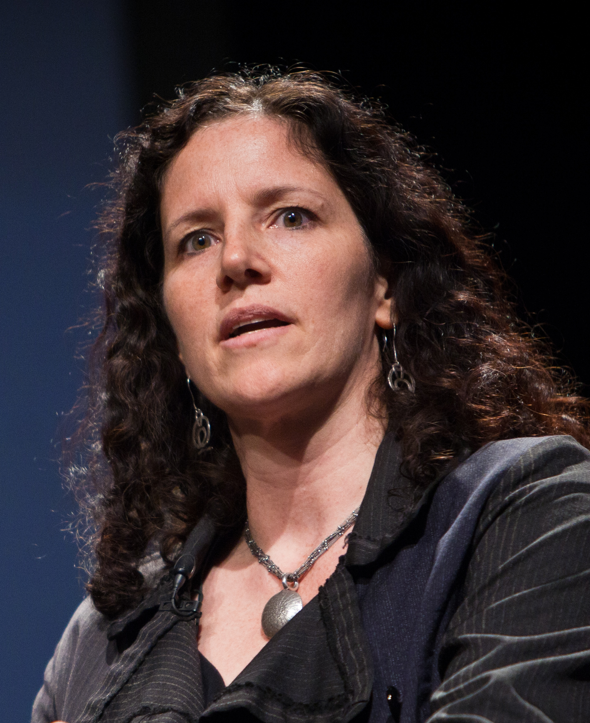 Laura Poitras at PopTech 2010 in Camden, Maine.